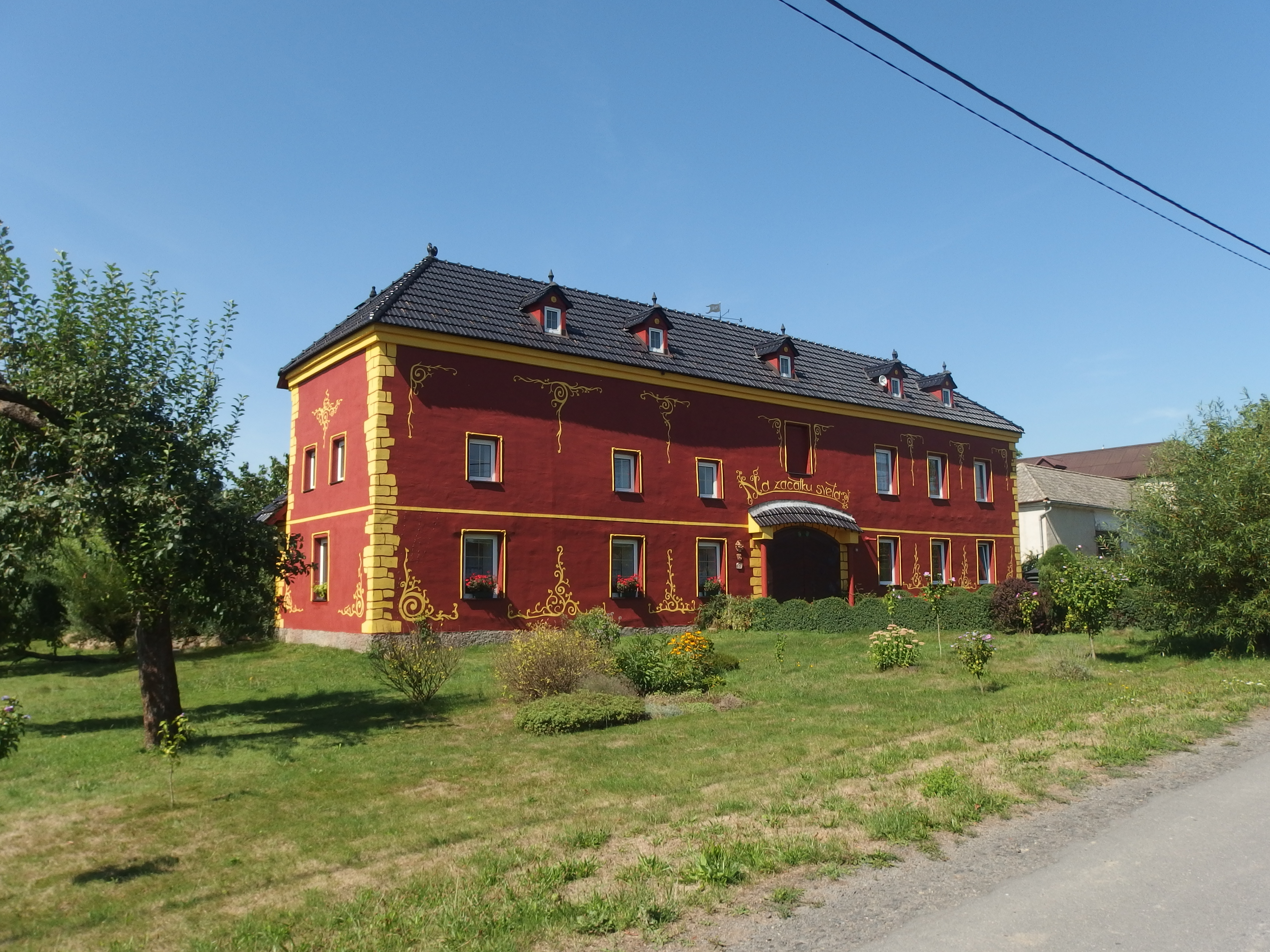 Jeseník nad Odrou, Nový Jičín District, Czech Republic, part Hrabětice.